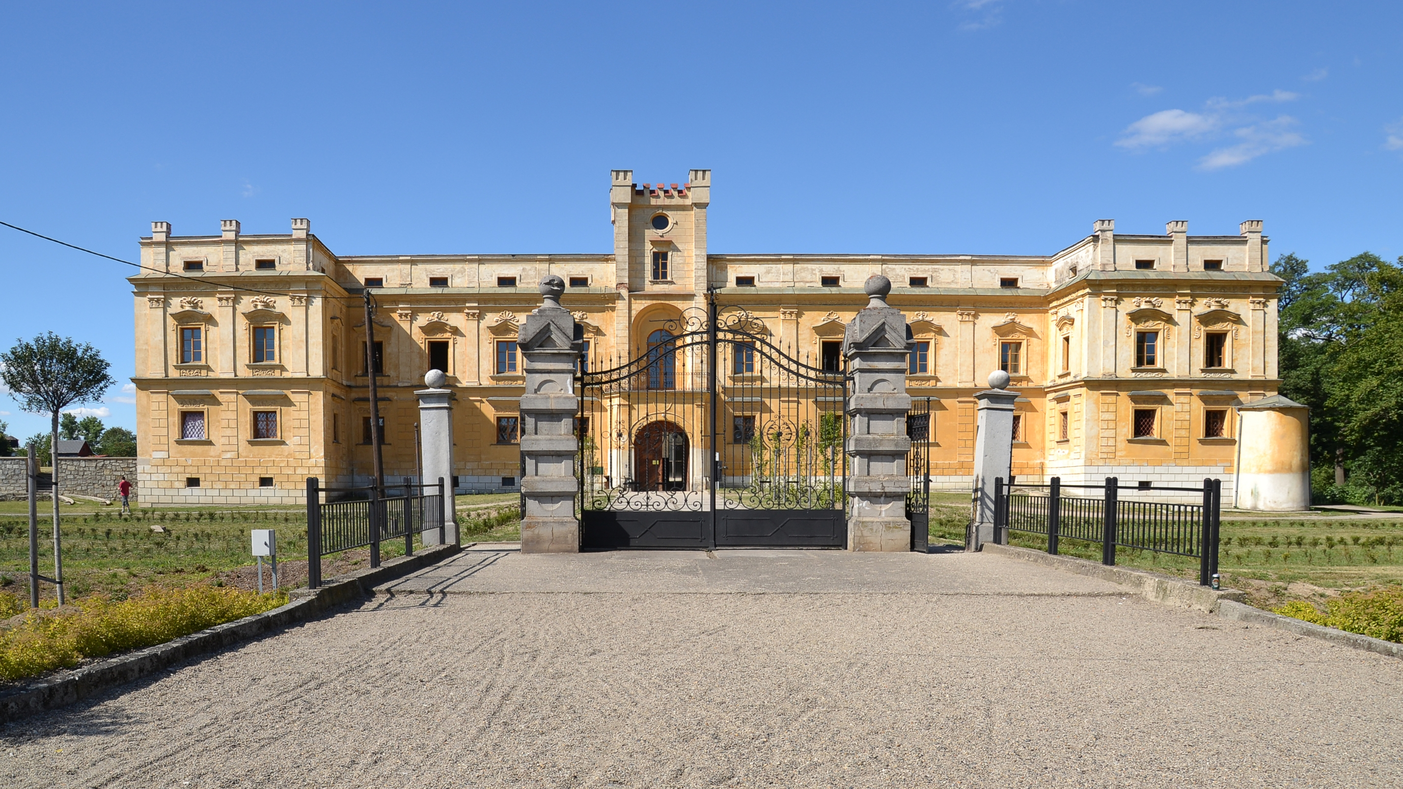 Chateau Slezské Rudoltice (Rosswald)